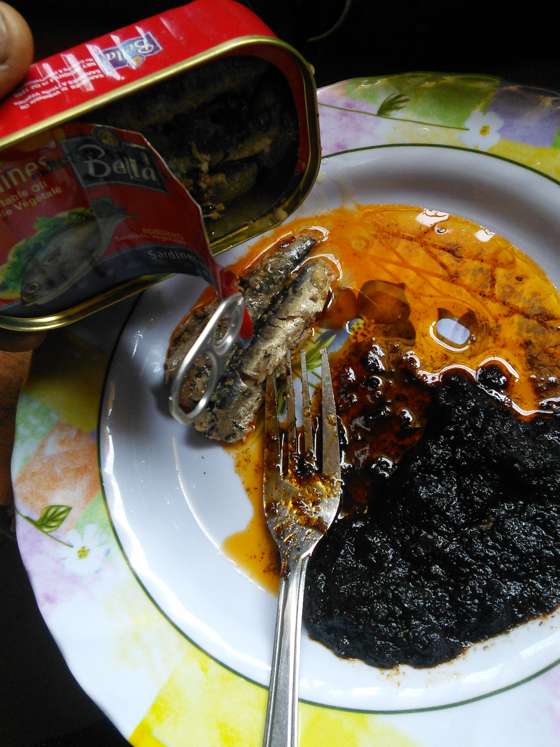 This is an image of food from Ghana